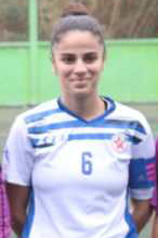 Tatiana Khalil at SAS, against BFA (2019-20)